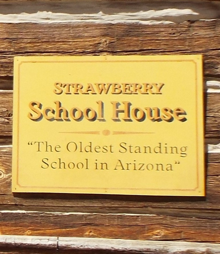 Strawberry School House sign in Strawberry, Az.